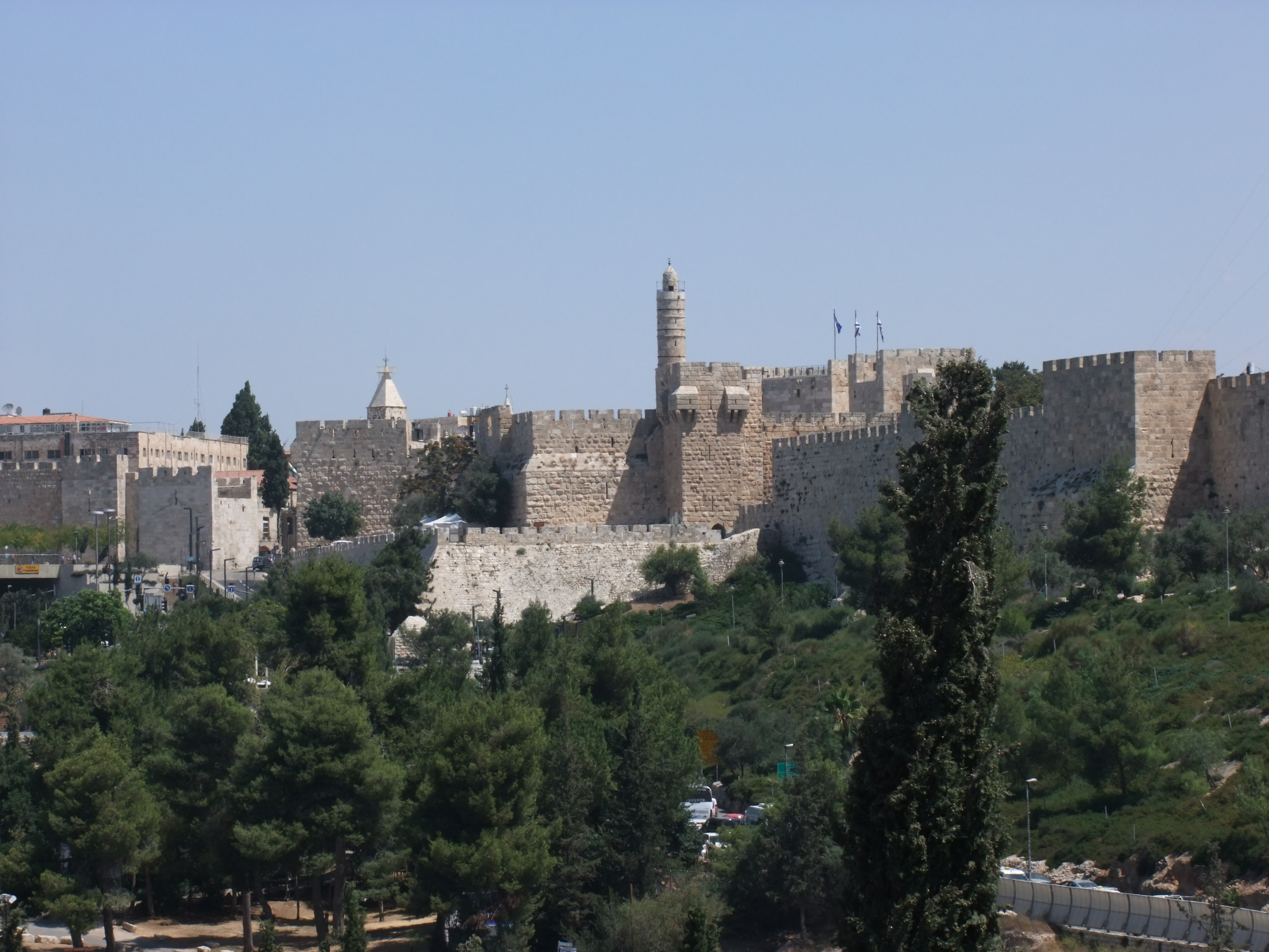 Jerusalem Citadel, Geography of Israel